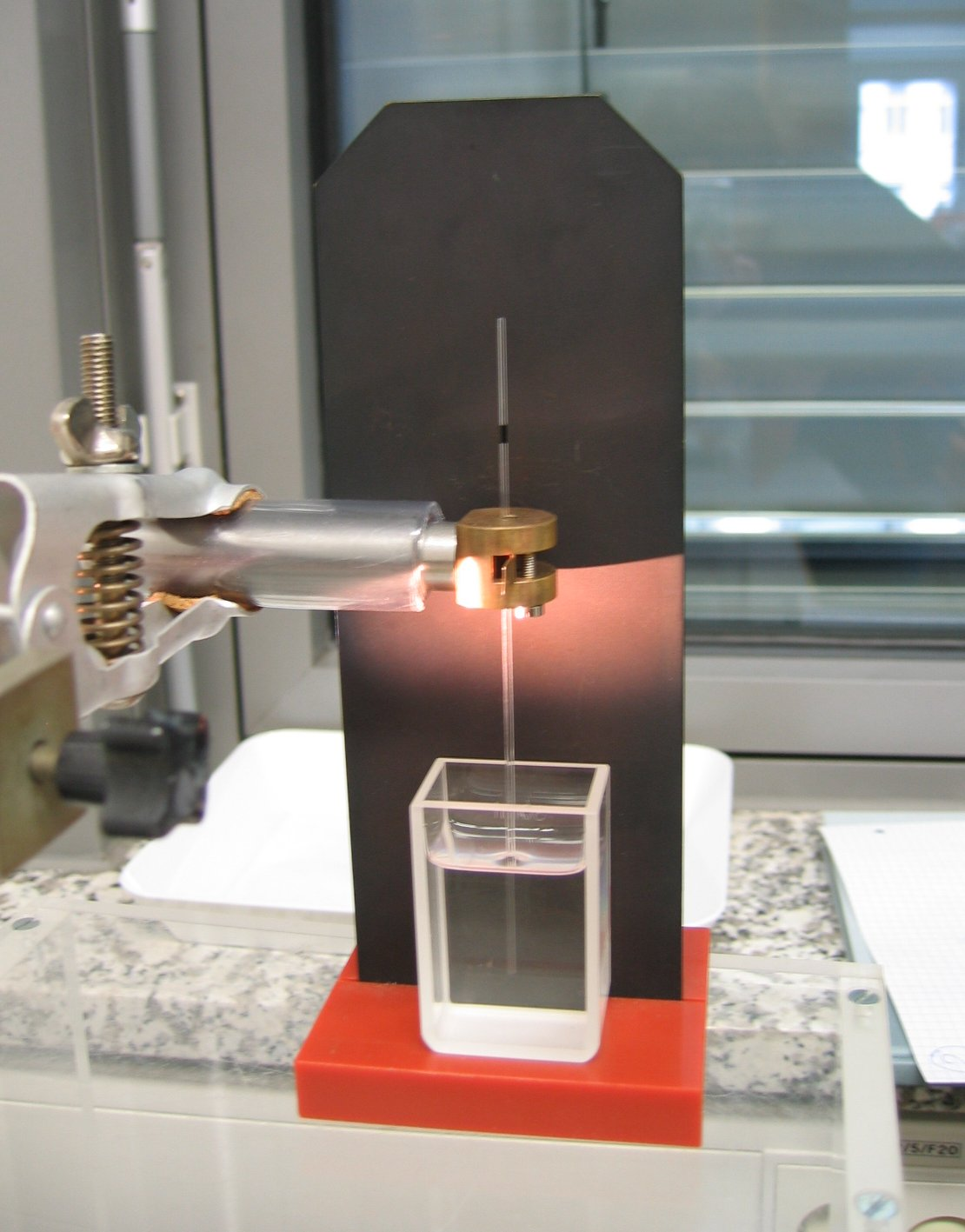 Measurement of surface tension.